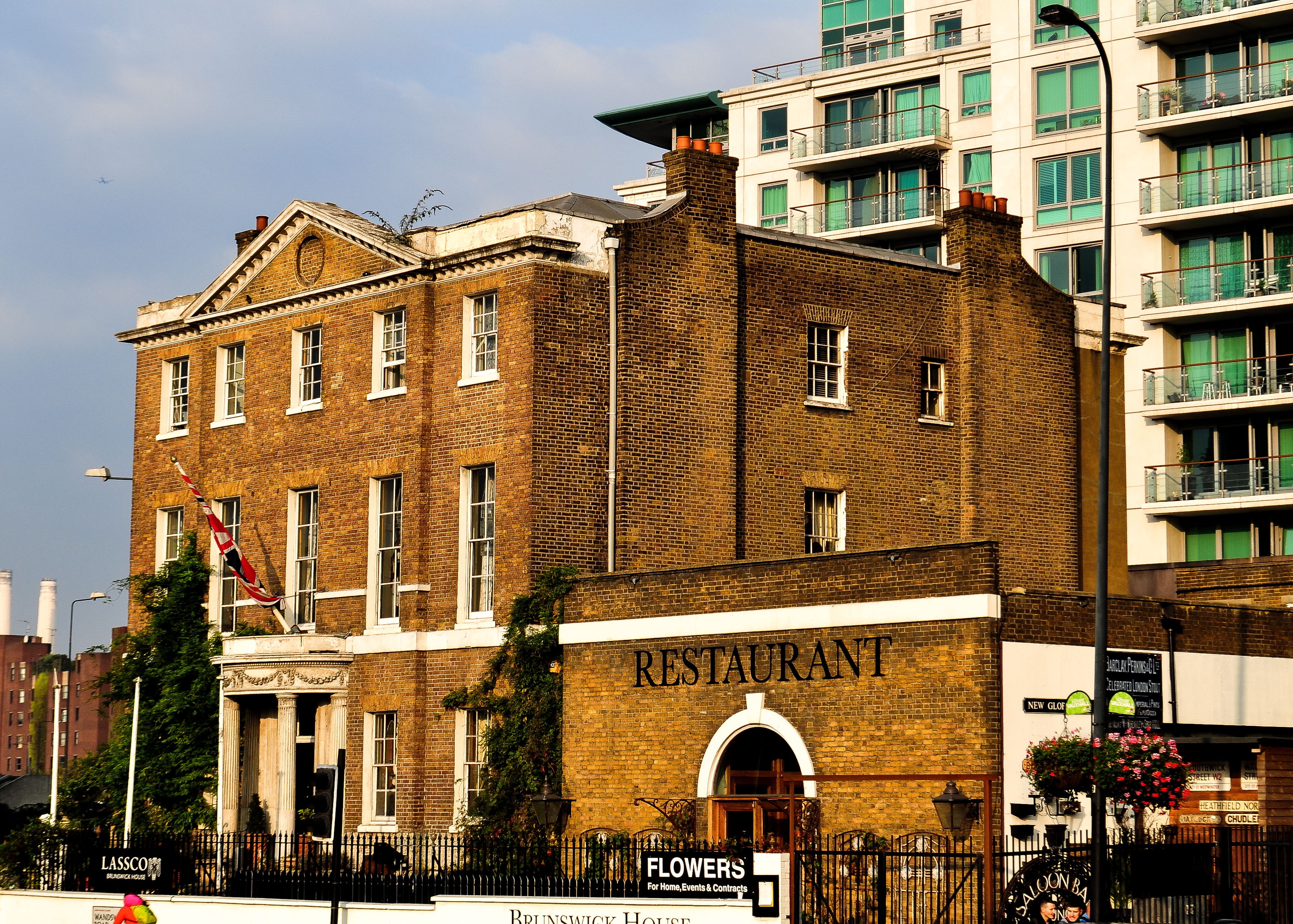 BRUNSWICK HOUSE Wikidata has entry Q17553018 with data related to this building.